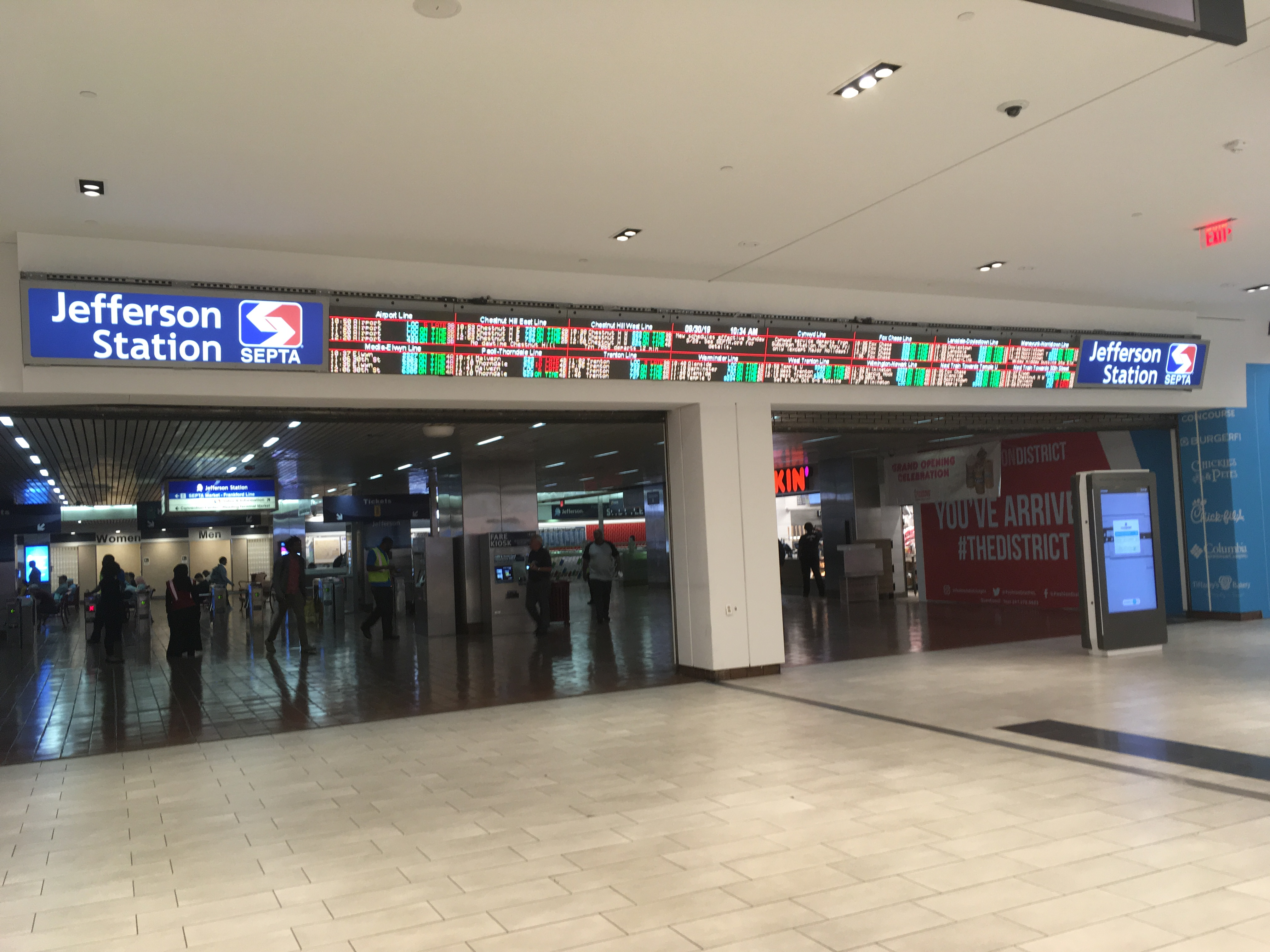 The entrance to Jefferson Station serving SEPTA Regional Rail trains from the Fashion District Philadelphia shopping mall in Philadelphia, Pennsylvania